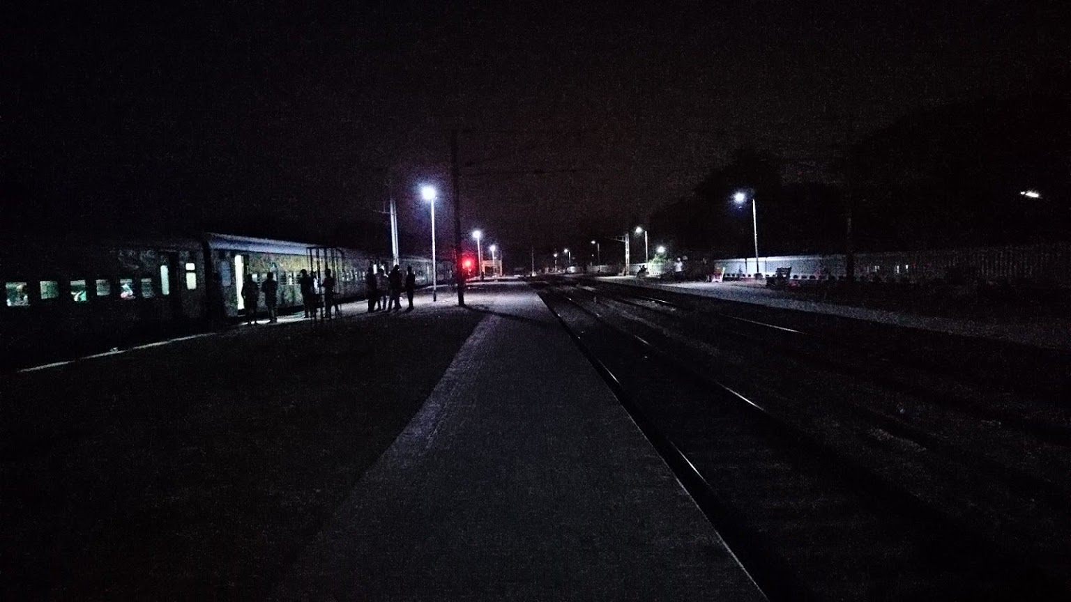 This is the Picture of Kalupara Ghat railway station